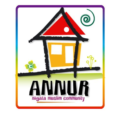 Annur mosque logo